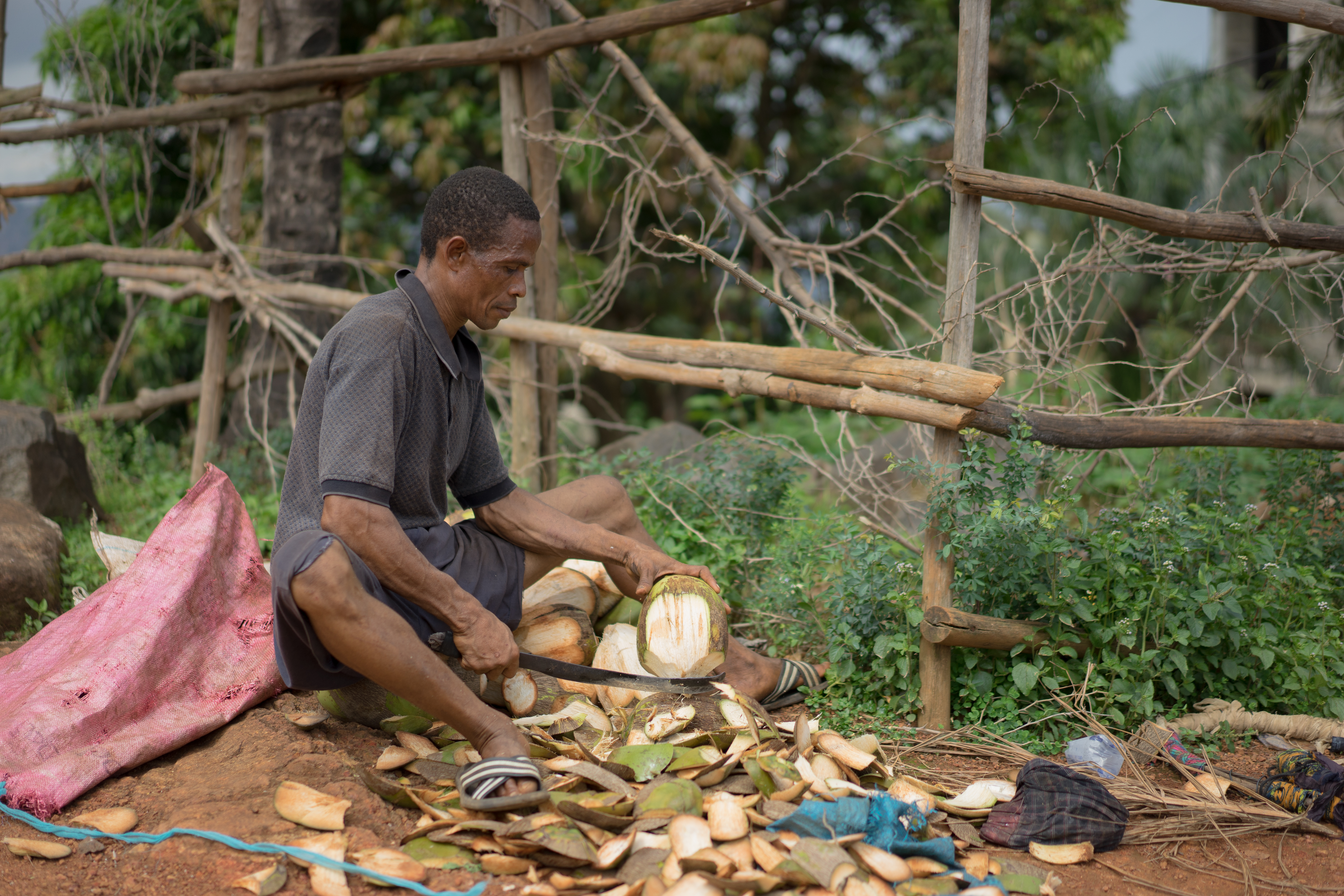 Man preparing coconuts for sale. This is an image of "African people at work" from Sierra Leone